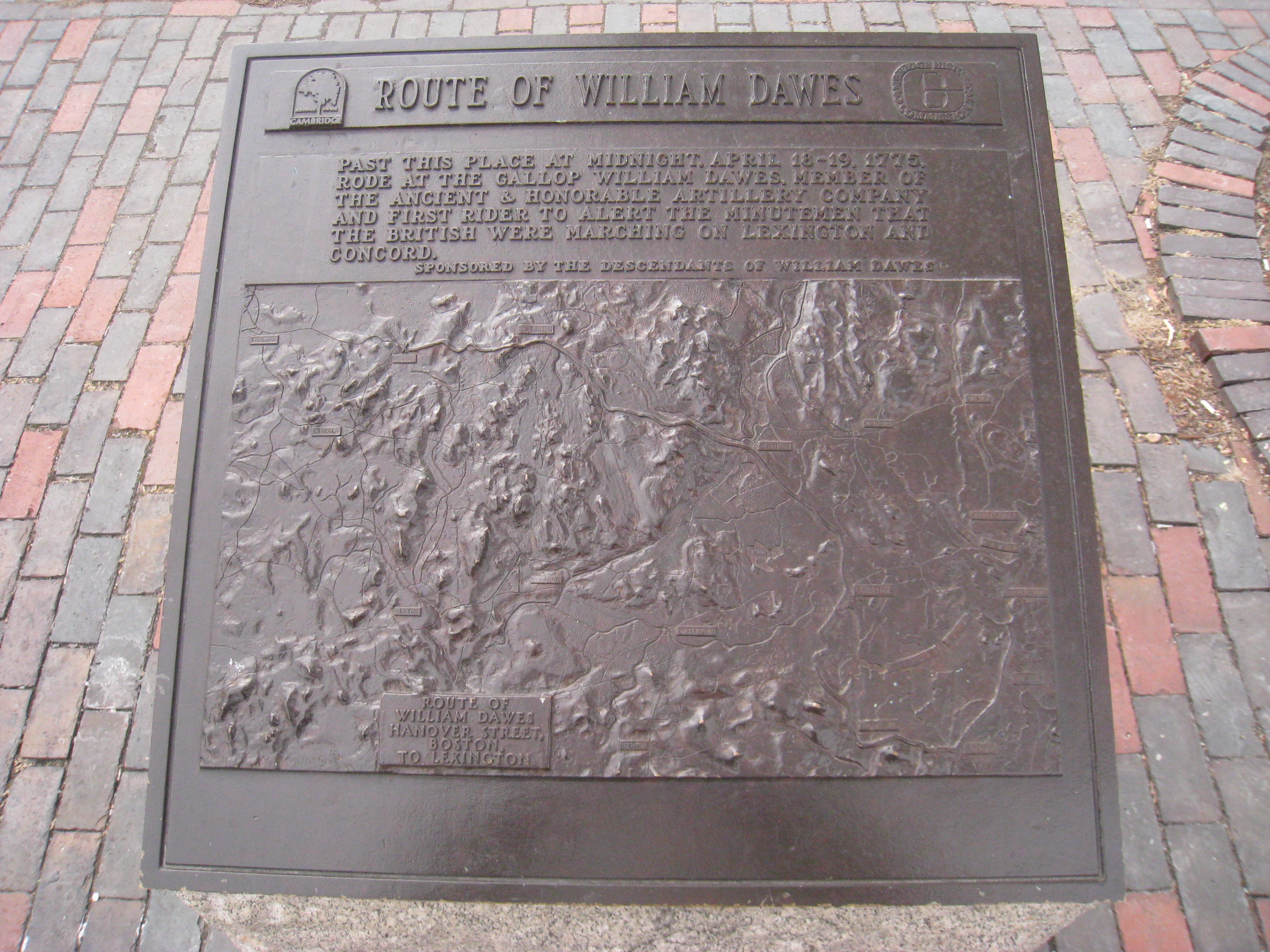 William Dawes plaque, near Cambridge Commons, Cambridge, Massachusetts, USA.